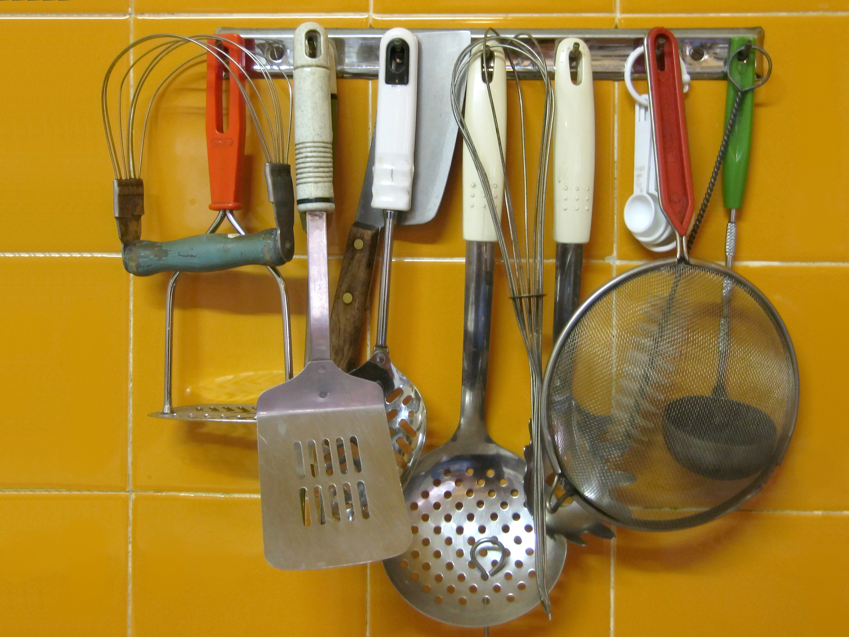 Kitchen tools, which mainly come from the 1970s, on a kitchen hook strip. From left: Pastry blender and potato masher Spatula and (hidden) serving fork Skimmer and chef's knife (small cleaver) Whisk and slotted spoon Spaghetti ladle Sieve and measuring spoon set Bottlebrush and ladle